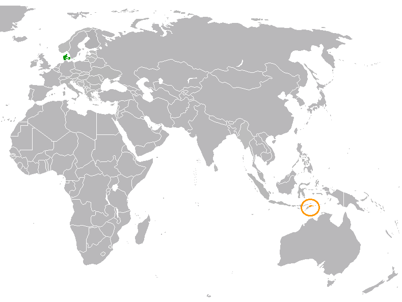 Map showing locations of both Denmark and East Timor